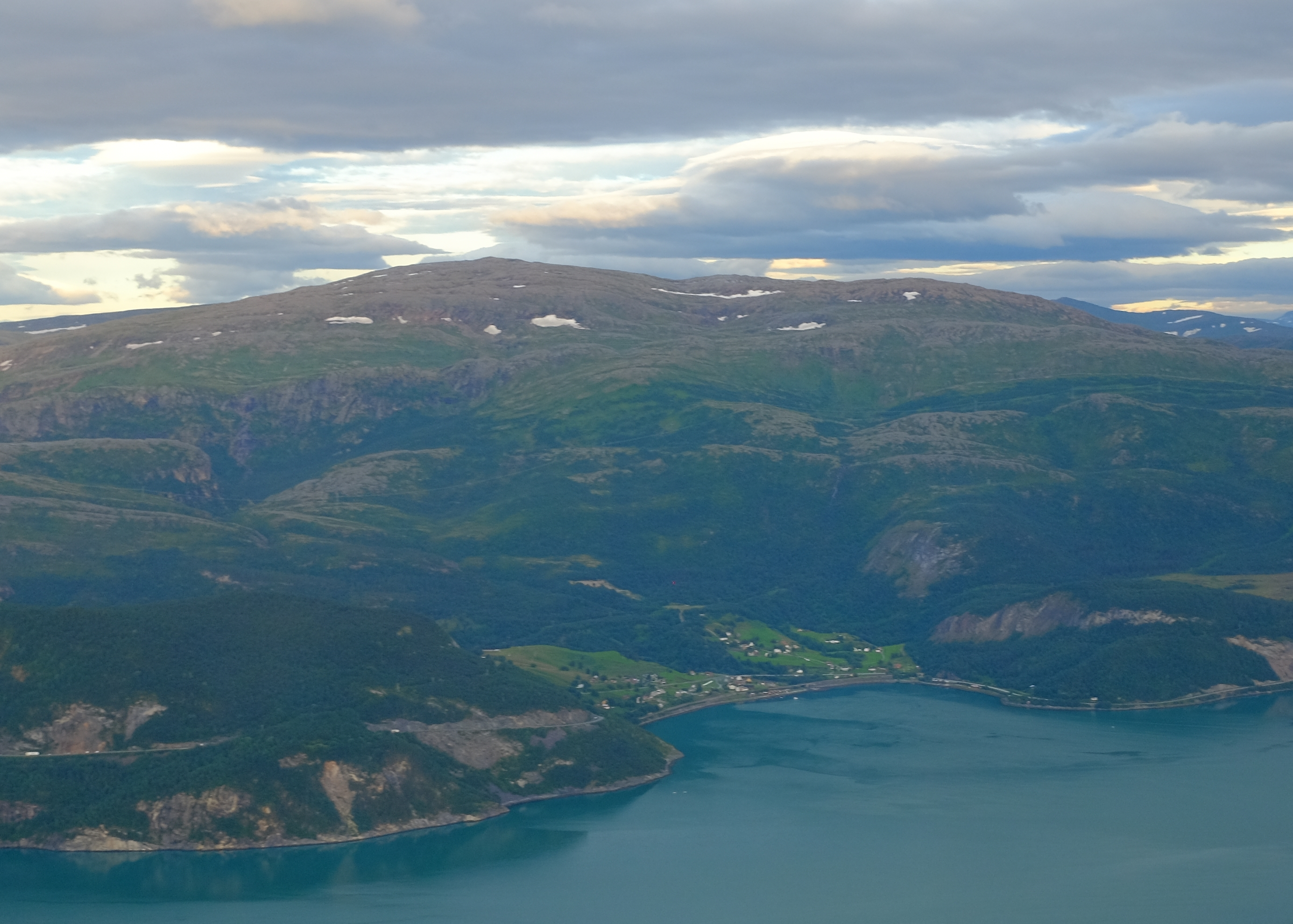 Setså is a village in Saltdal municipality in Salten in Nordland county, Norway. The village is located north of Rognan and Saksenvik and Langseth, on the east side of Saltenfjord.